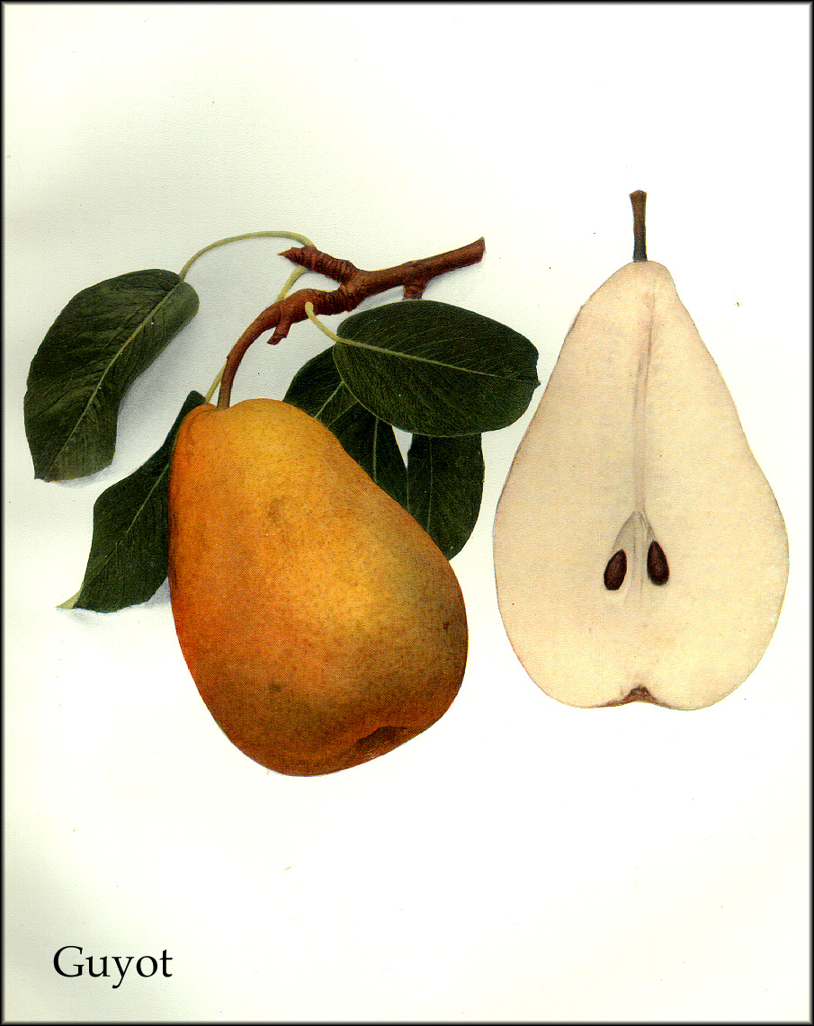 A colour plate from The Pears of New York (1921) depicting the Guyot pear cultivar.